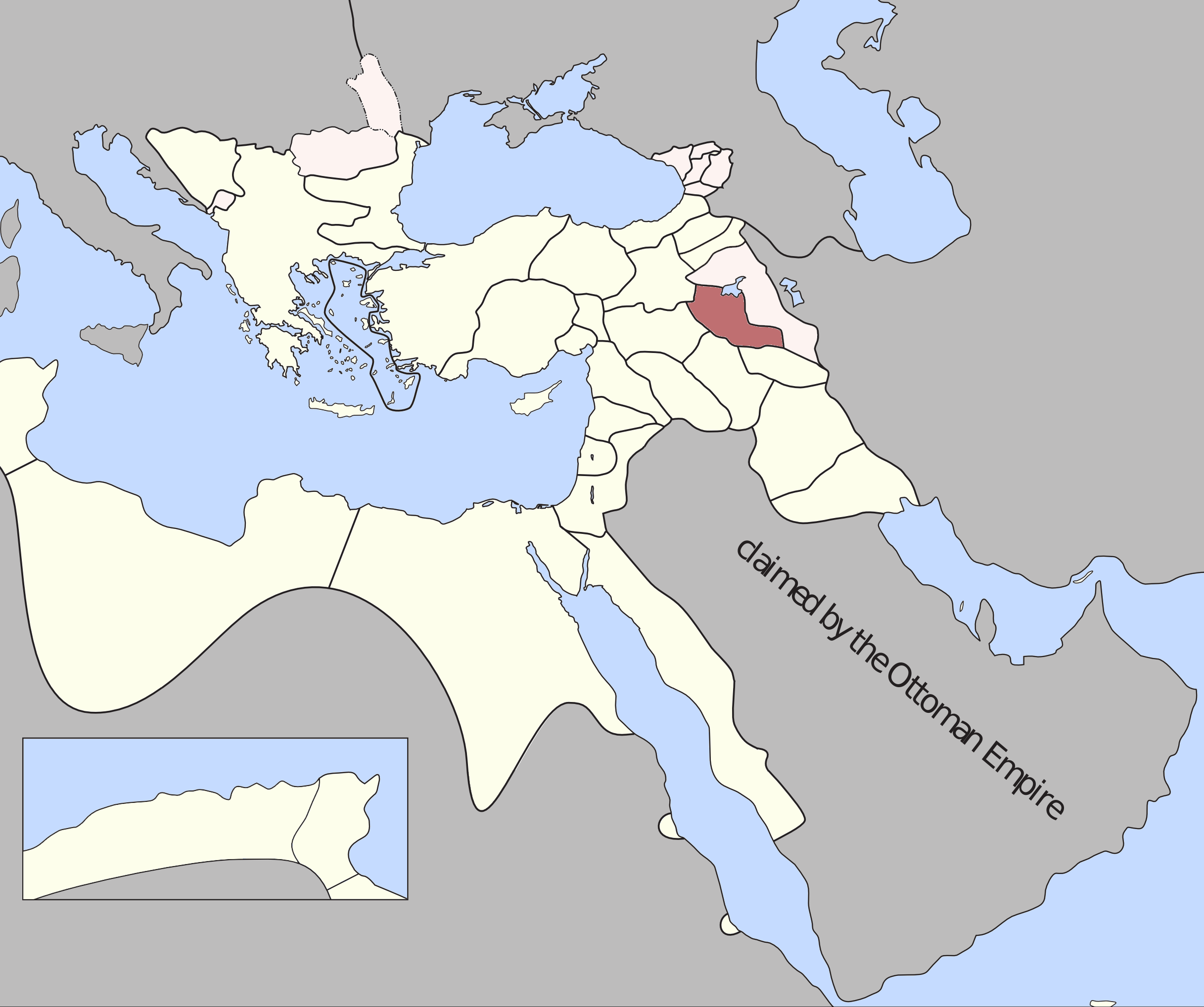 XY Eyalet, Ottoman Empire (1795). Source: A Brief History of the Late Ottoman Empire at Google Books By M. Sukru Hanioglu, Figure 1